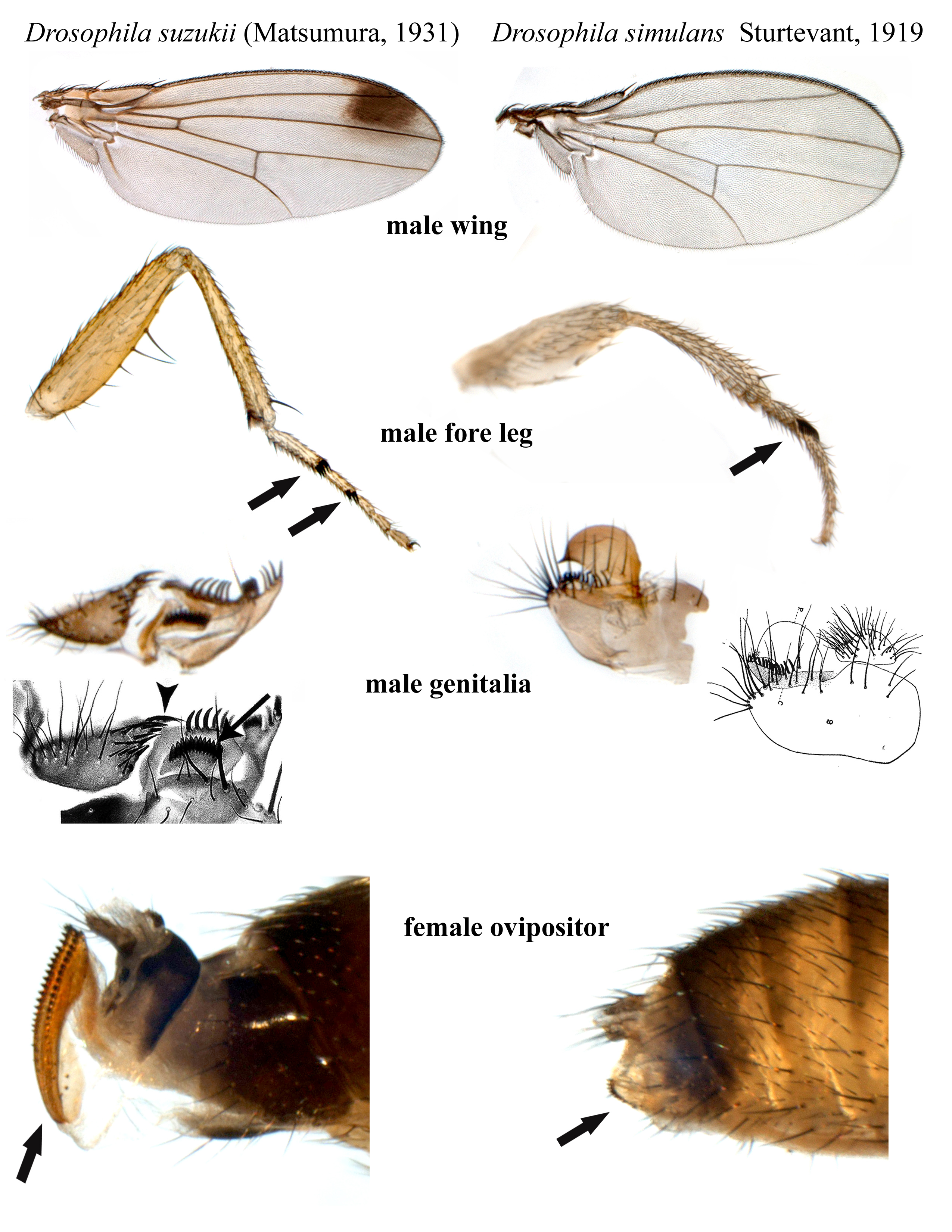 Drosophila suzukii - Unterscheidungsmerkmale - California